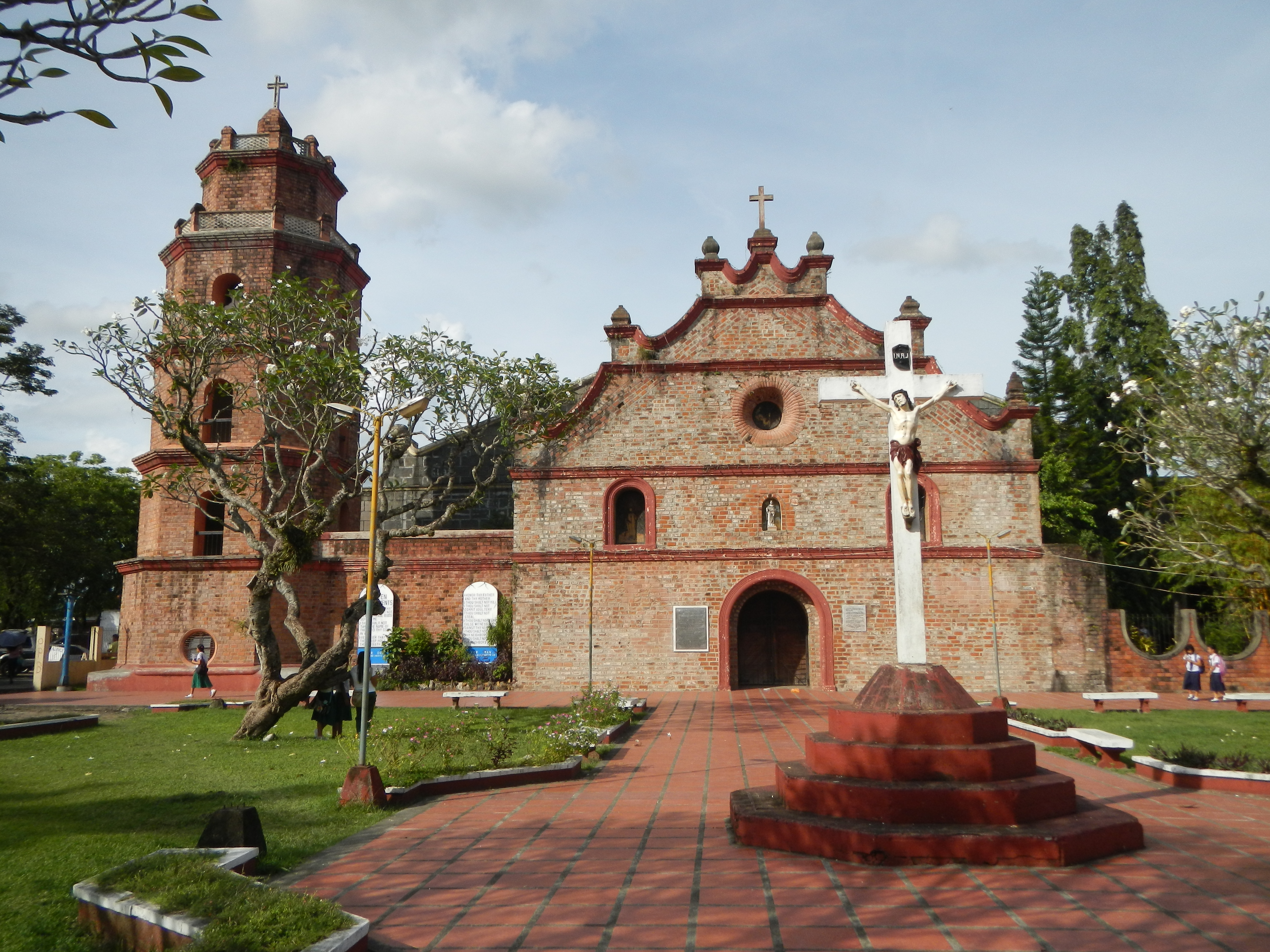 Upload Wizard photos of -- Saint Dominic Cathedral of Bayombong, Bayombong, Nueva Vizcaya[1] located at the heart of the town with the best sounding church bells made of bricks and rare church antiques [2] Bayombong (F-1874) Catholic Rectory Bayombong, 3700 Nueva Vizcaya (includes municipality of Ambaguio), Titular: St. Dominic de Guzman, August 8 Founder: Dominican Friars Parish Priest: Father Teodoro L. Lazo Parochial Vicar: Father Victor M. Abijay.[3] Coordinates: 16°29'1"N 121°9'2"E [4] belongs to the [5] Roman Catholic Diocese of Bayombong [6] [7] - Bayombong, Nueva Vizcaya[8].